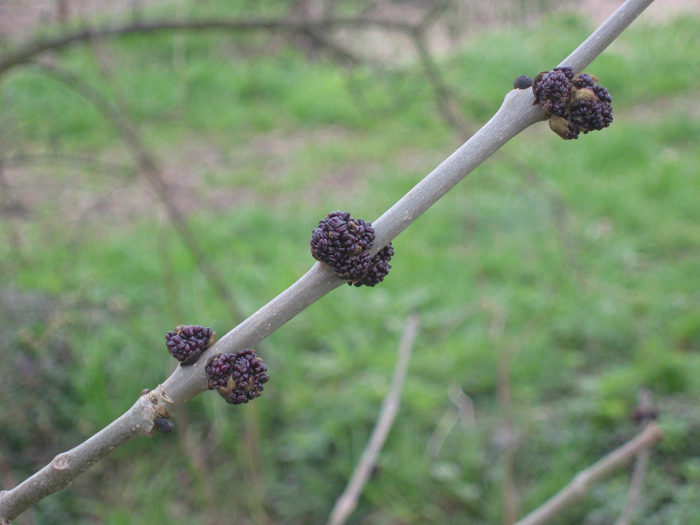 Fraxinus excelsior male inflorescens